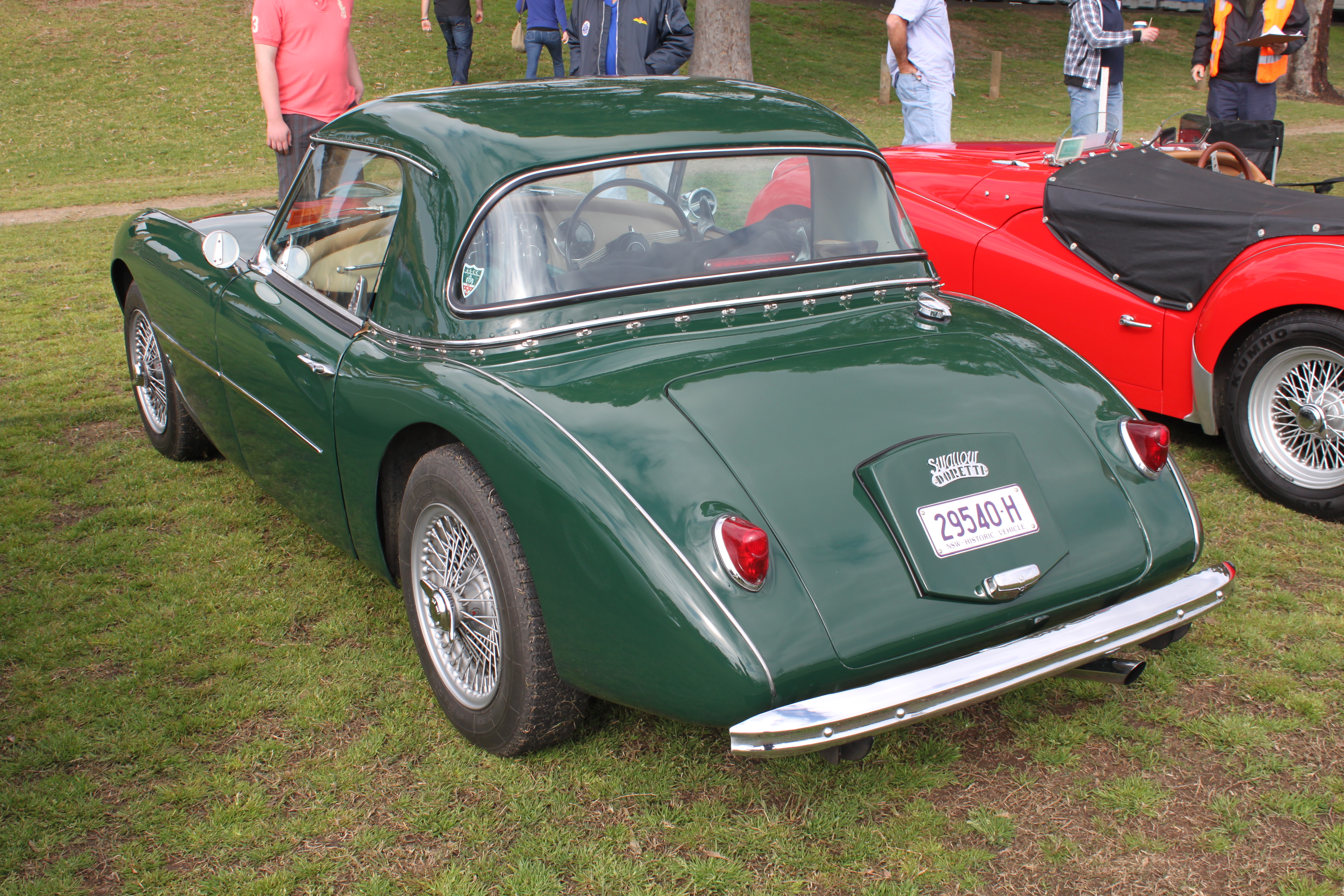 Swallow Doretti